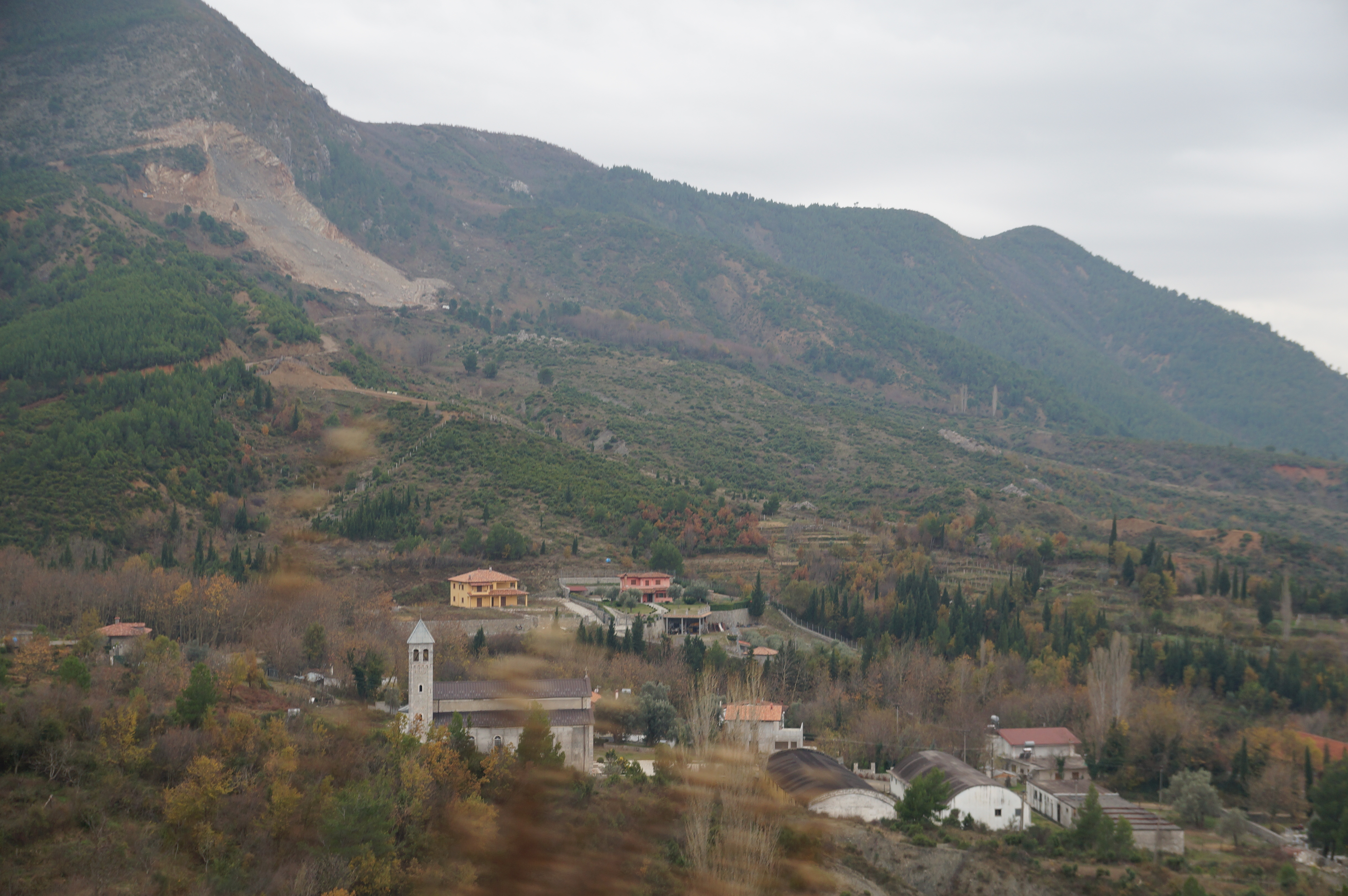 Church of Kallmet e Madhe, Zadrima, Albania